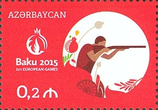 Baku 2015. First European Games.(2nd edition) N 1211 - 20 qapik – Shooting